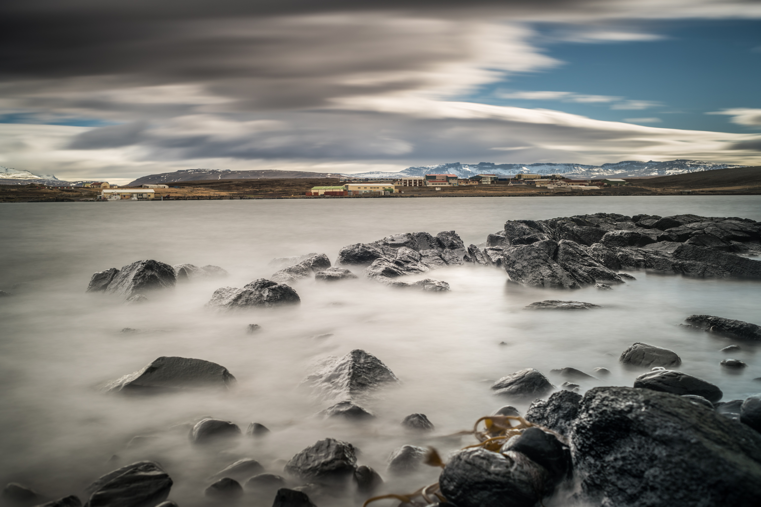 Port-aux-Français, Kerguelen